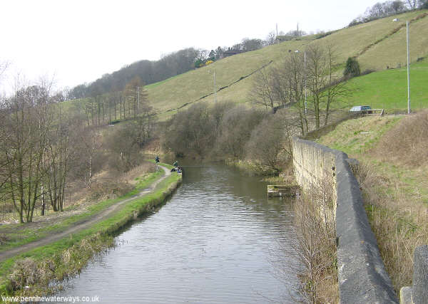 Rochdale Canal at Brearley. Looking westwards along the Rochdale Canal from Brearley Bridge towards Mytholmroyd, West Yorkshire.